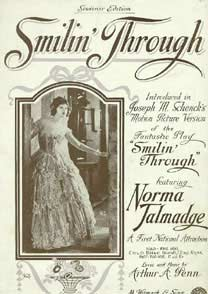 Cover of sheet music of the song "Smilin' Through", published by M. Witmark and Sons, New York in 1922 with a photo of Norma Talmadge in the 1922 fim "Smilin' Through".